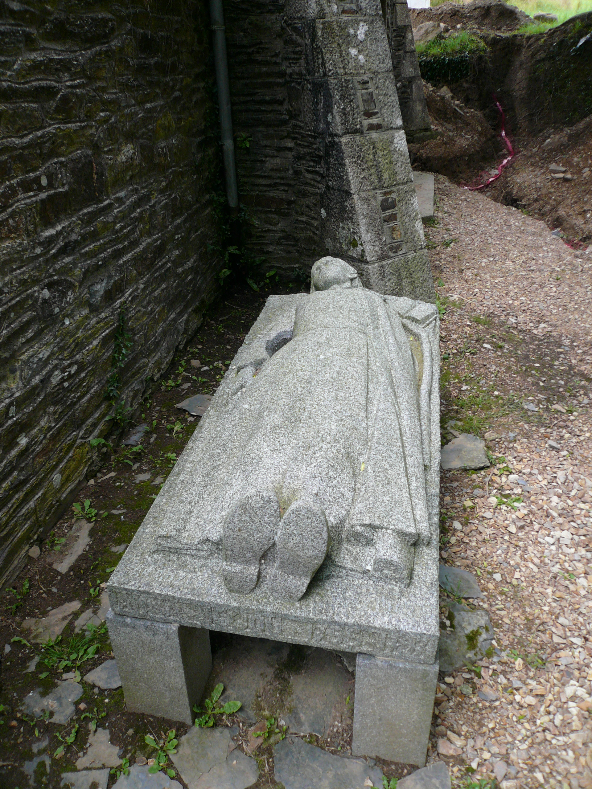 Tombstone located on the south of the chapel of Coat Quéau, Scrignac, Finistère, Brittany, FRANCE